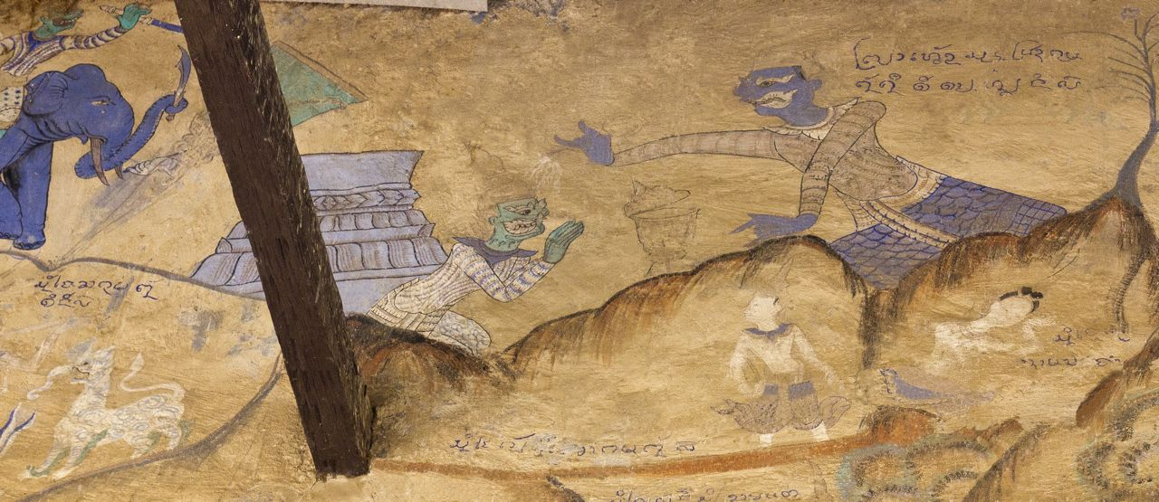 This mural detail from Wat Photaram shows when Nyak Vedsuvan, who after learning that Nyak Koumphan had been killed by Sinxay and his bones interred in a stupa, comes down from the heavens to Nyak Koumphan's kingdom. Riding an elephant he has the elephant knock over the stupa seen on the far left of the photo. He then pours sacred water over the bones and brings Nyak Koumphan back to life. Unfortunately he still remains angry that Sinxay took Soumountha back to Muang Pengchan and refuses to listen to Vedsuvan who pleads with him to find another wife.